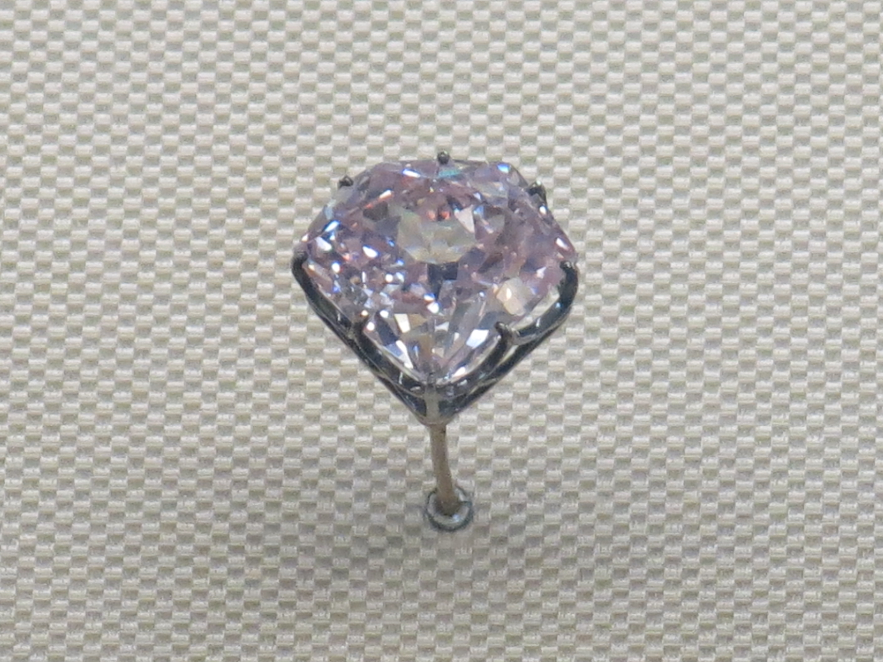 Pink diamond named "Hortensia". Apollo gallery of Louvre museum (Paris, France).